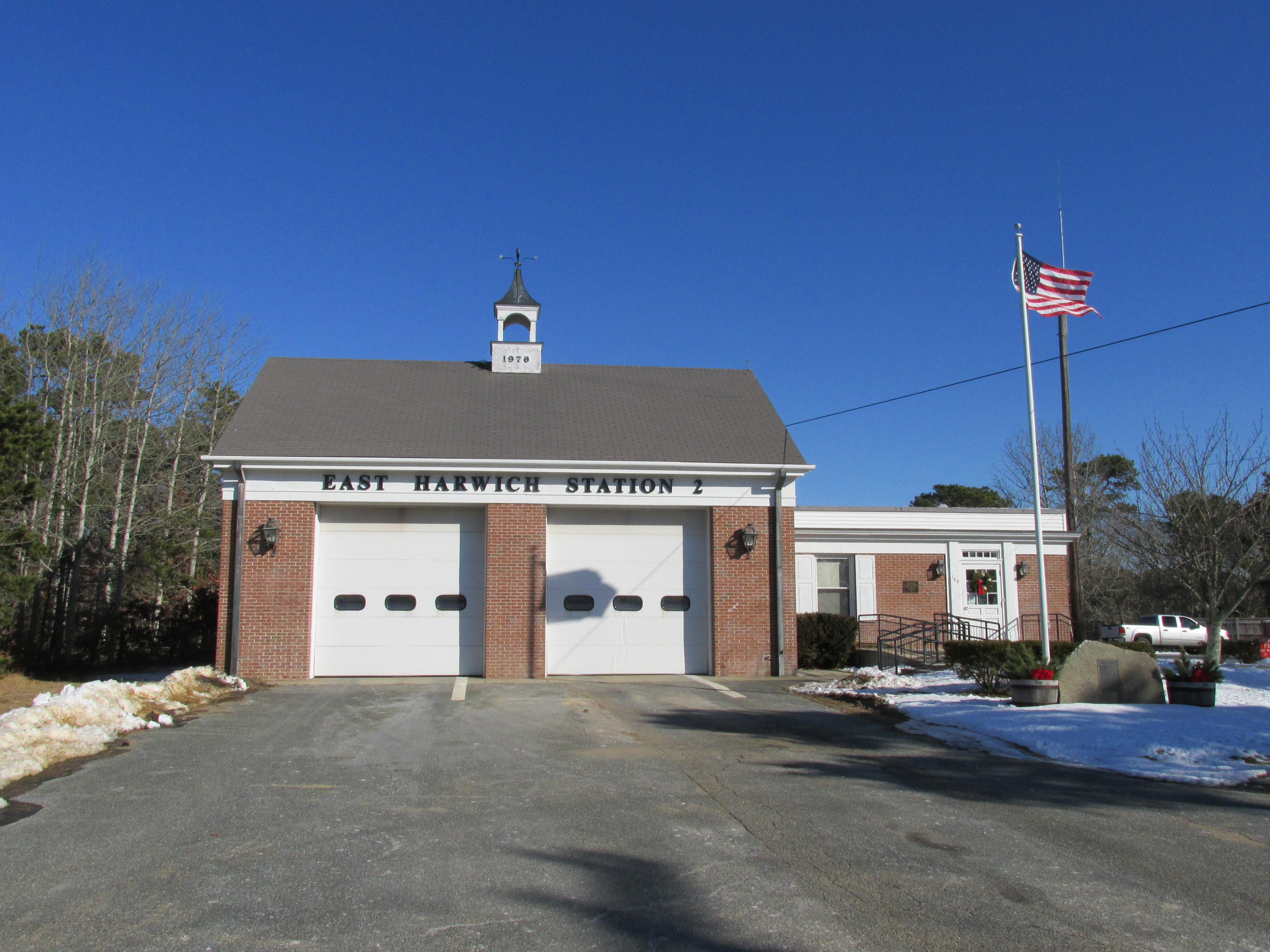 Station 2, East Harwich Massachusetts